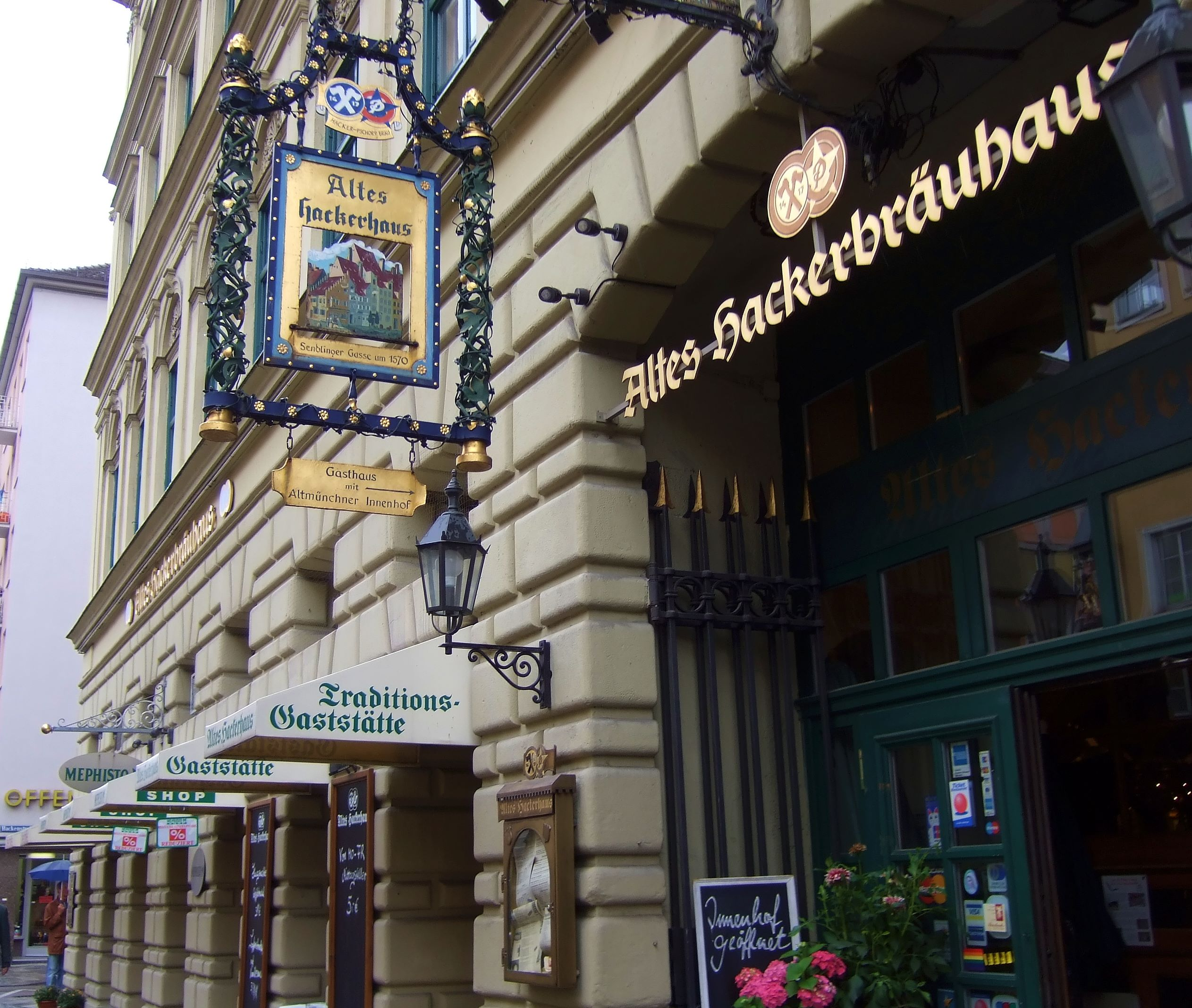 Entrance of the "Altes Hackerhaus", a traditional Munich Restaurant. The Restaurant was the former house restaurant of an very old Munich Brewery. Since 1985, it is being run by the family Pongratz. Website of the Restaurant